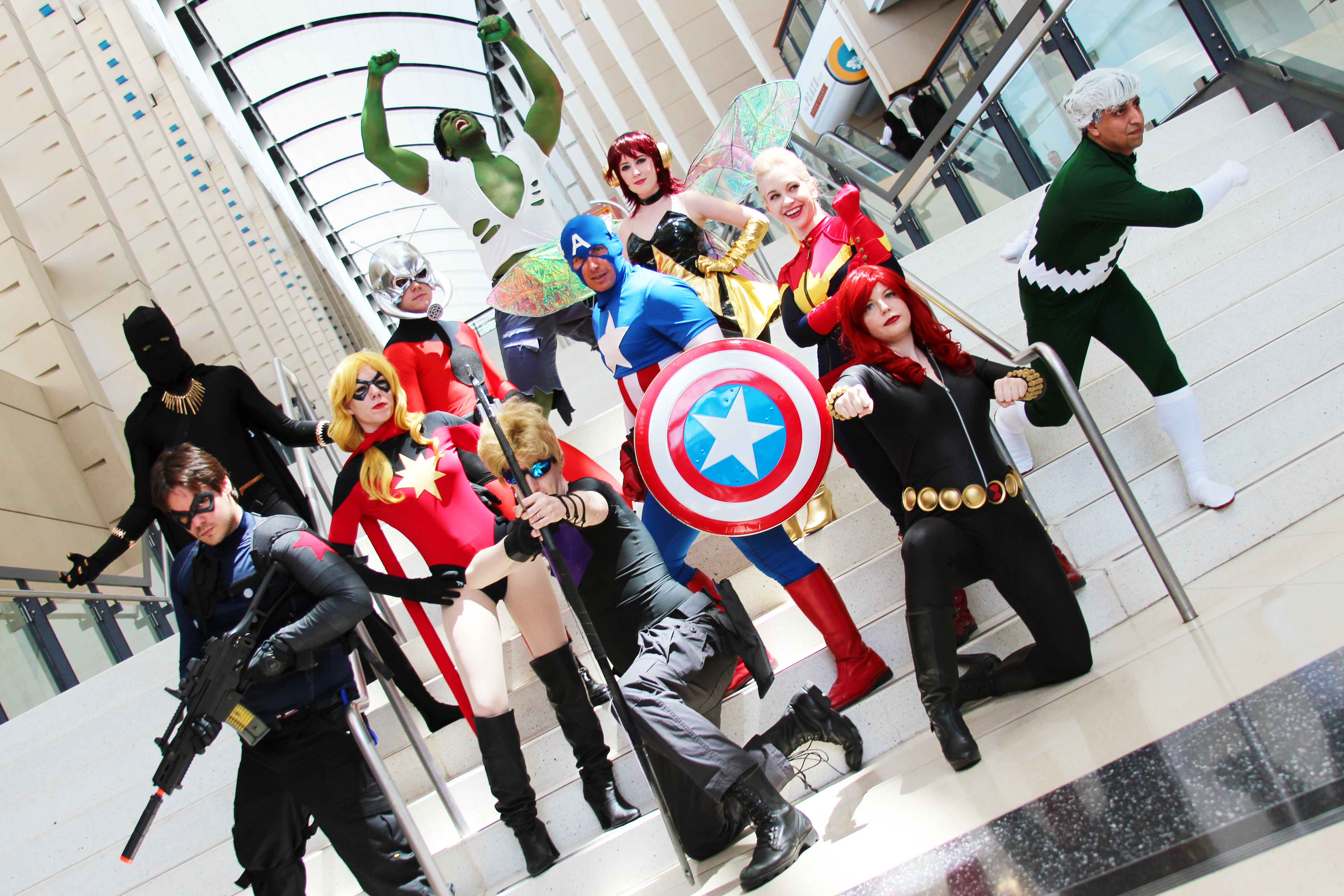 Cosplay at the 2013 Chicago Comic & Entertainment Expo (C2E2).